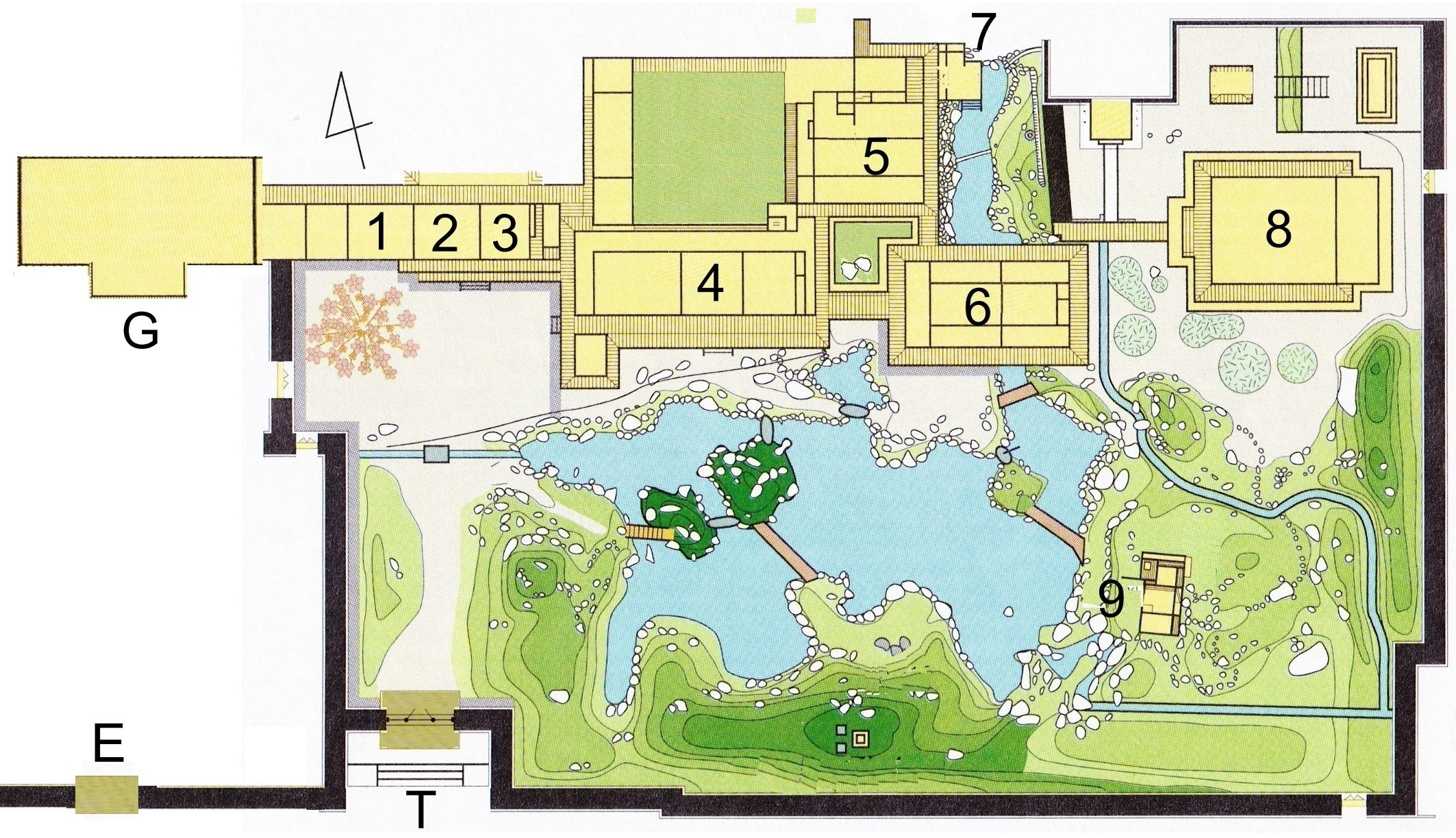 Layout of Sambo-in at Kyoto